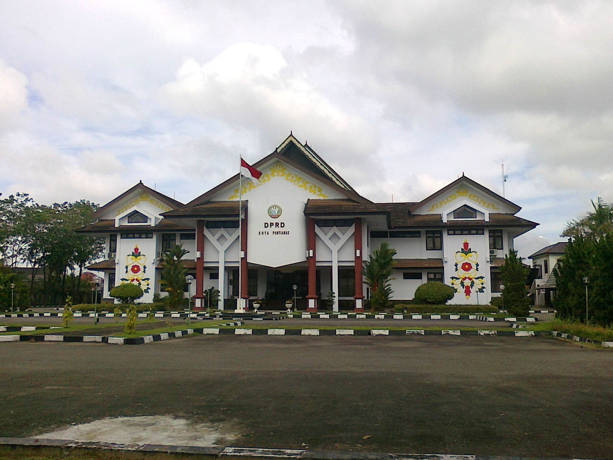 Pontianak City Representatives Council Building.